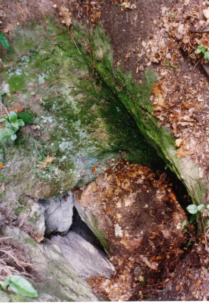 Pit of Weislich Cave from outside (blocked with a stone), Visegrád Mountains, Pomáz